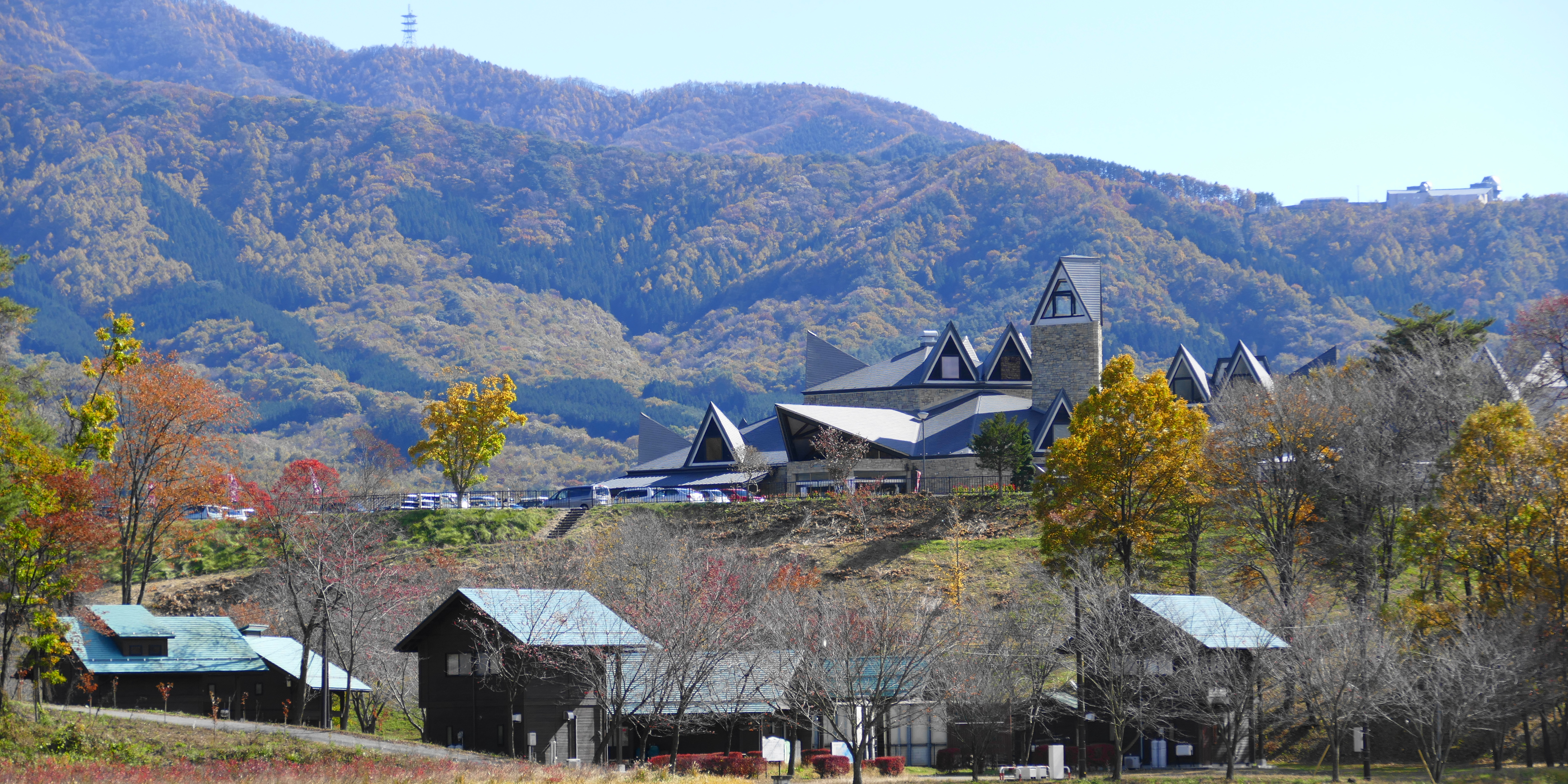 Roadside station Nakayama Basin,Gunma prefecture,Japan